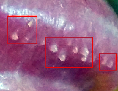 Hirsuties papillaris genitalis